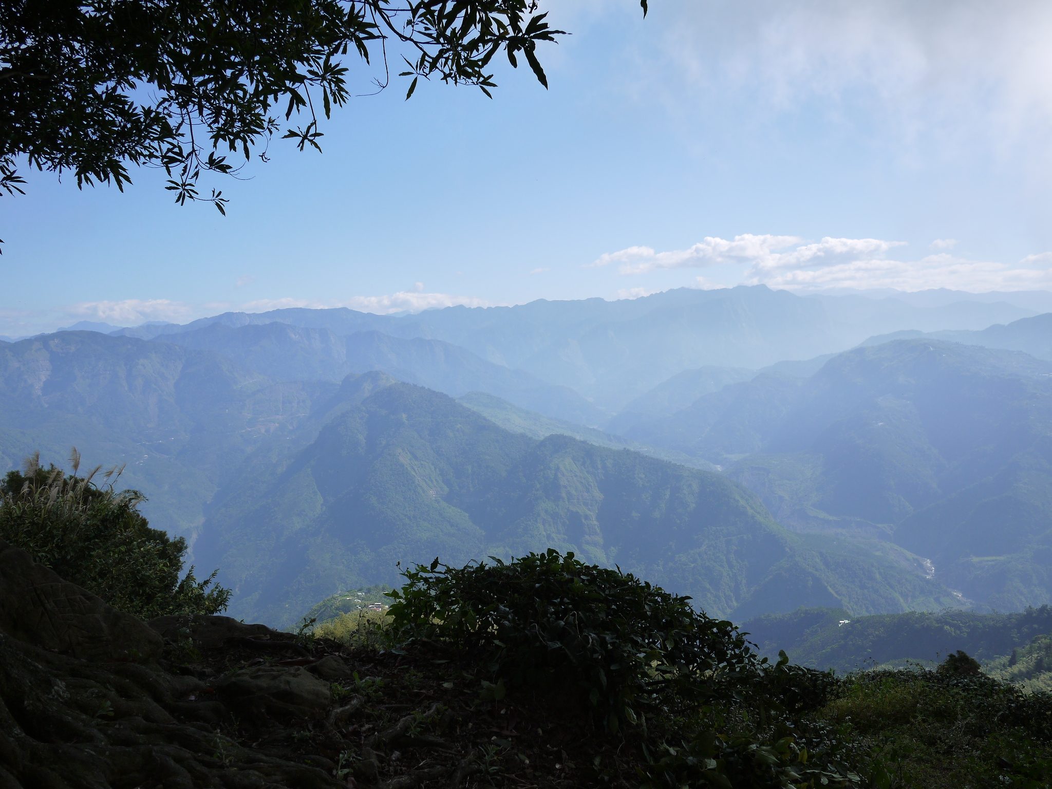 Looking east towards the landslide scarp of Caoling on the way up the trail to Mount Dajian.